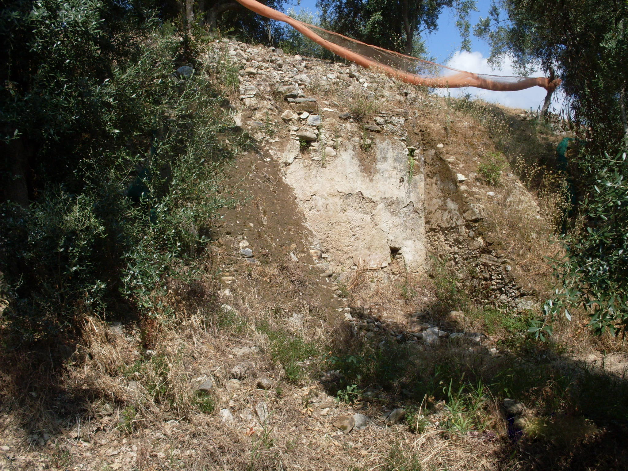 Un tratto della possente cinta muraria.